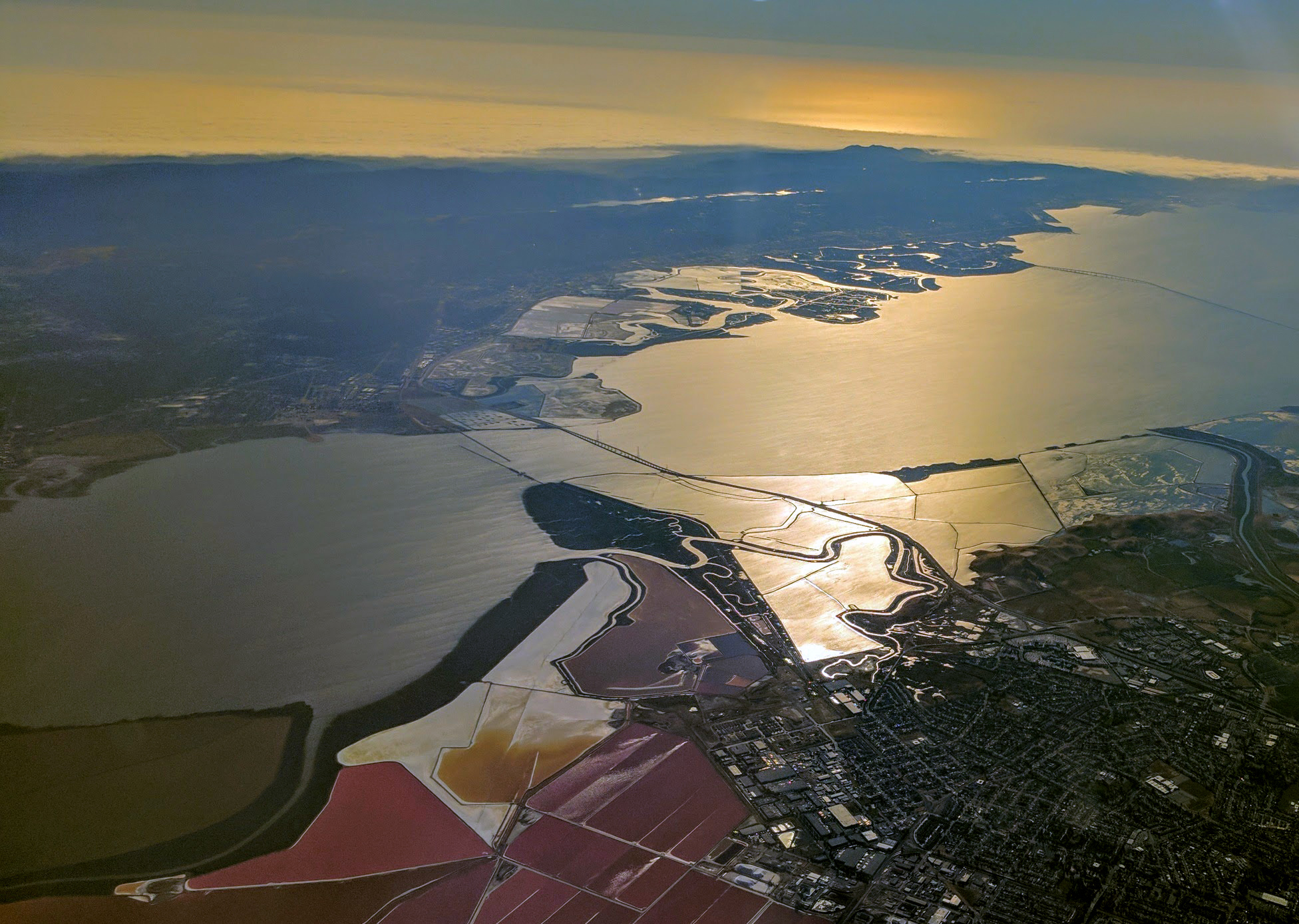 Aerial view looking west, into the evening sun, across the Don Edwards San Francisco Bay National Wildlife Refuge. With the exception of the red ponds in the foreground, most of the wetlands visible are in the refuge, including the dark green area by the Mowry Slough in the lower left, the area on both sides of the meandering Plummer Creek near the east end of the Dumbarton bridge, and areas on the far side of the bridge on both sides of the bay.